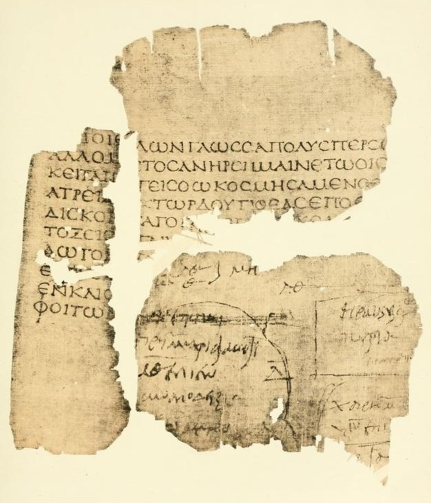 fragment of the second book of "Iliad"